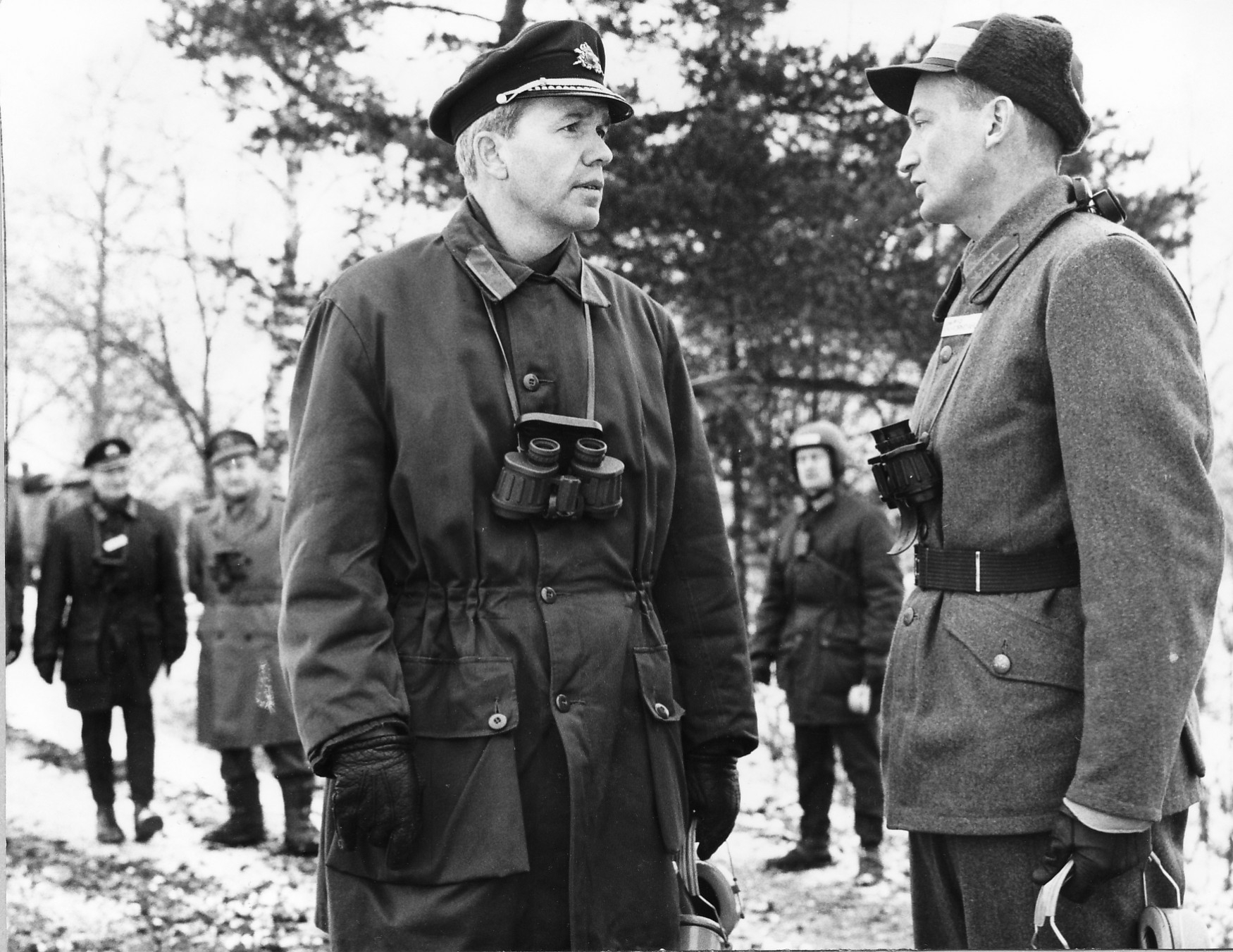 Demonstration of weapons at Härads training area for invited guests. The Army Inspector (at the Eastern Military Area) Colonel Kjell Nordström (left) in consultation with Captain Yngve Hörndahl.